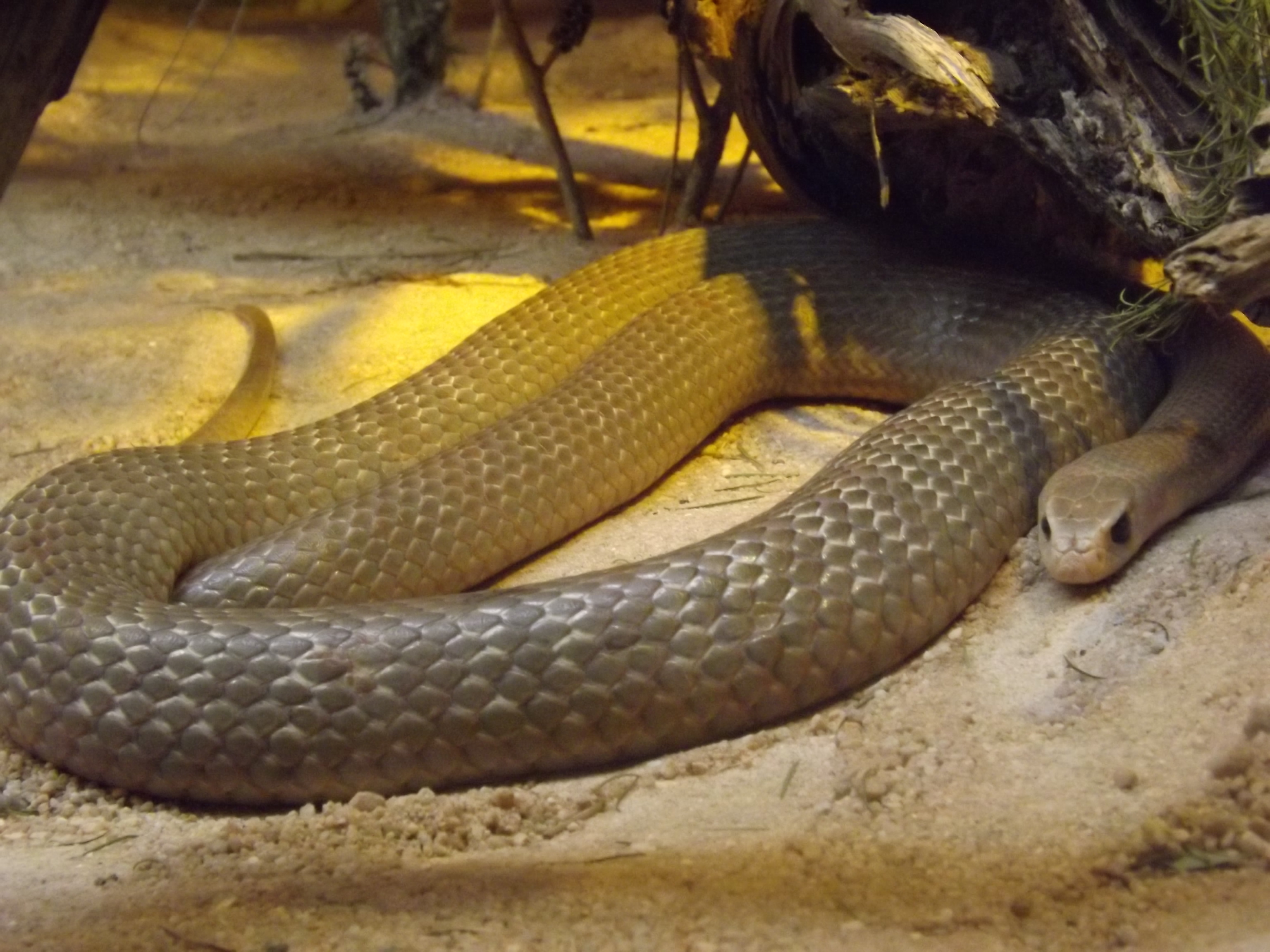 An Eastern brown snake (Pseudonaja textilis) at Healesville Sanctuary.